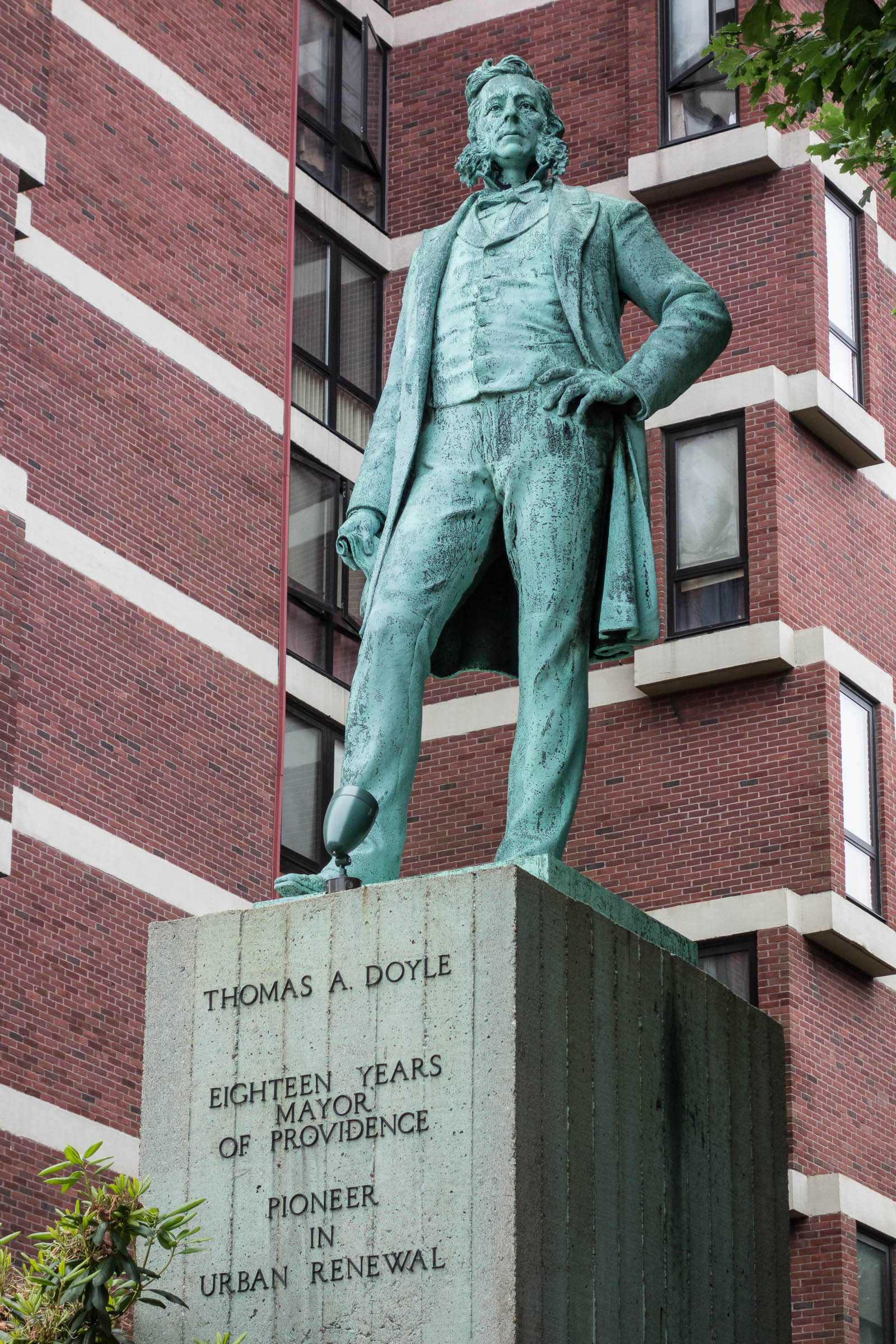 Bronze sculpture of Providence mayor Thomas A. Doyle, at the corner of Chestnut and Broad St.